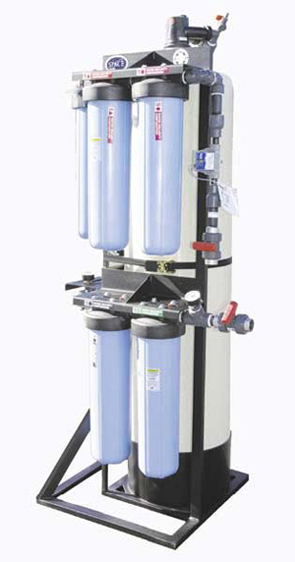 NASA engineers are collaborating with qualified companies to develop a complex system of devices intended to sustain the astronauts living on the International Space Station and future,Moon missions. This system makes use of available resources by turning wastewater from respiration, sweat, and urine into drinkable water. Commercially, this system is benefiting people all over the world who need affordable, clean water, especially in remote locations. By combining the benefits of chemical adsorption, ion exchange, and ultra-filtration processes, products using this technology yield safe, drinkable water from the most challenging sources, such as in underdeveloped regions where well water may be heavily contaminated. (Spinoff 1995, 2004, 2008) (Spinoff 2007)